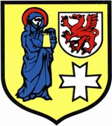 Old coat of arms of Banie, Poland